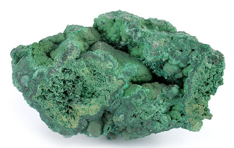 Bayldonite, Malachite Locality: Tsumeb Mine (Tsumcorp Mine), Tsumeb, Otjikoto (Oshikoto) Region, Namibia (Locality at ) Size: 9.6 x 6.2 x 5.5 cm. Massive bayldonite on which is a layer of microcrystalline druse, sparkling in vugs. In the central vug are elongated, acicular crystals of what look like hair-like malachite. It is almost certainly from the early 1900s and the first (upper) oxidation zone.